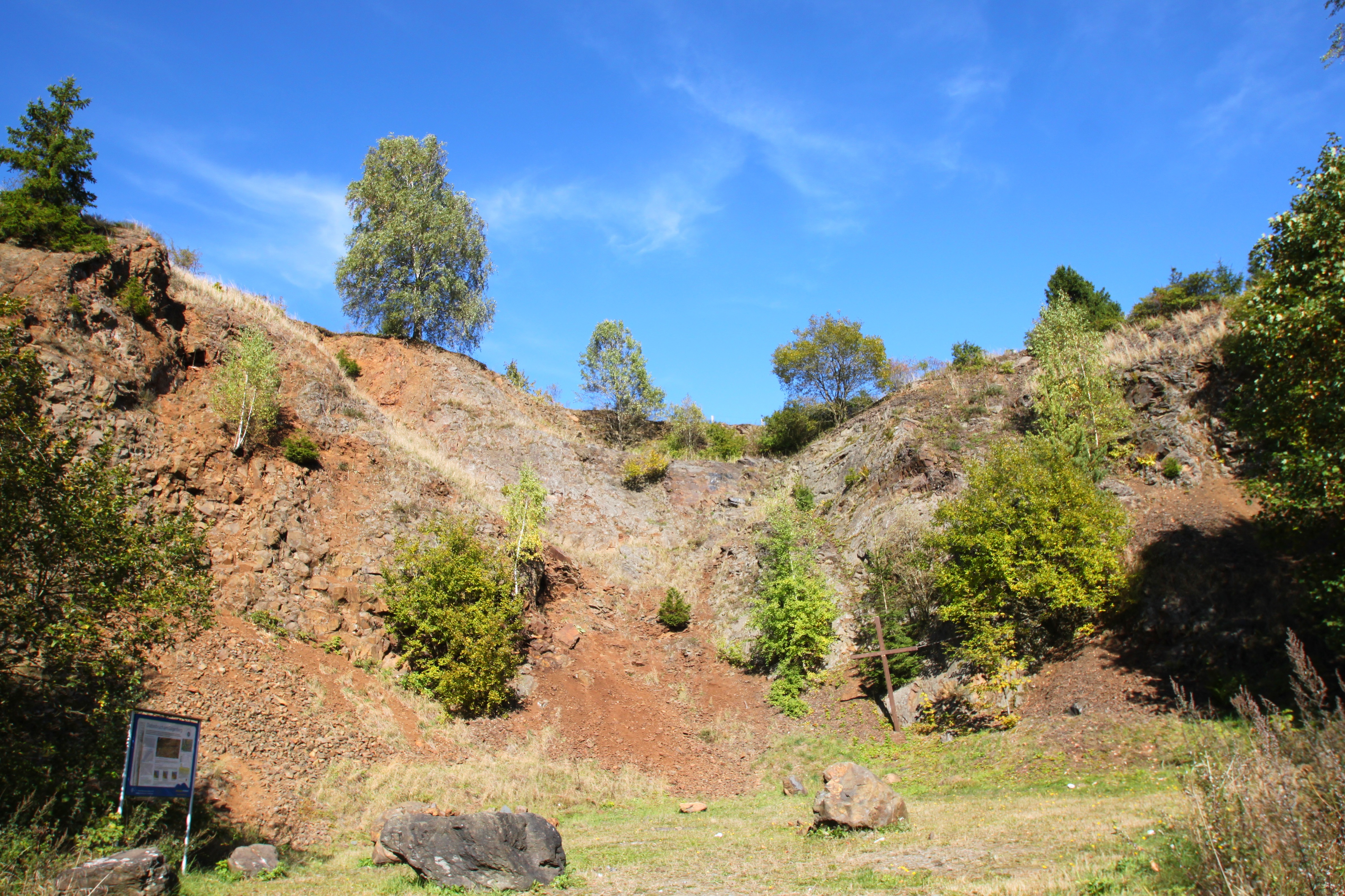 Diabasequarry at Galgenberg near Bernstein am Wald